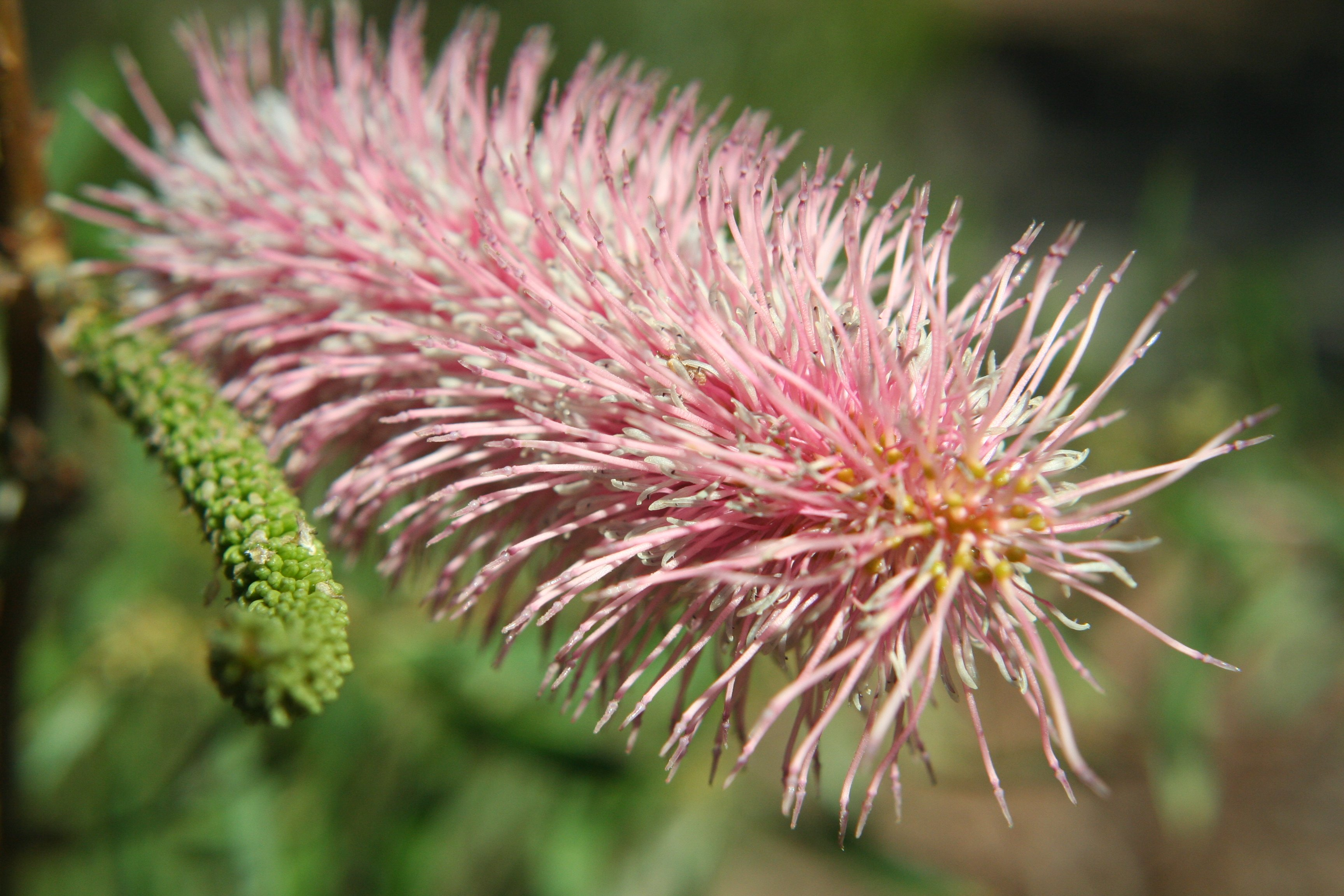 Flower of Grevillea petrophiloides.